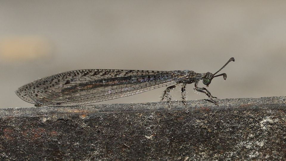 Neuroleon lepidus, an antlion; Ngwenya Lodge, Mpumalanga. LacewingMAP record no. 9820